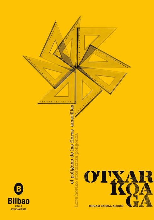 Book that analyses the architecture of Otxarkoaga ("Place of Yellow flowers" in Basque), a "satellite city", a suburb of 3,672 subsidised housing units built in Bilbao between 1959 and 1964.